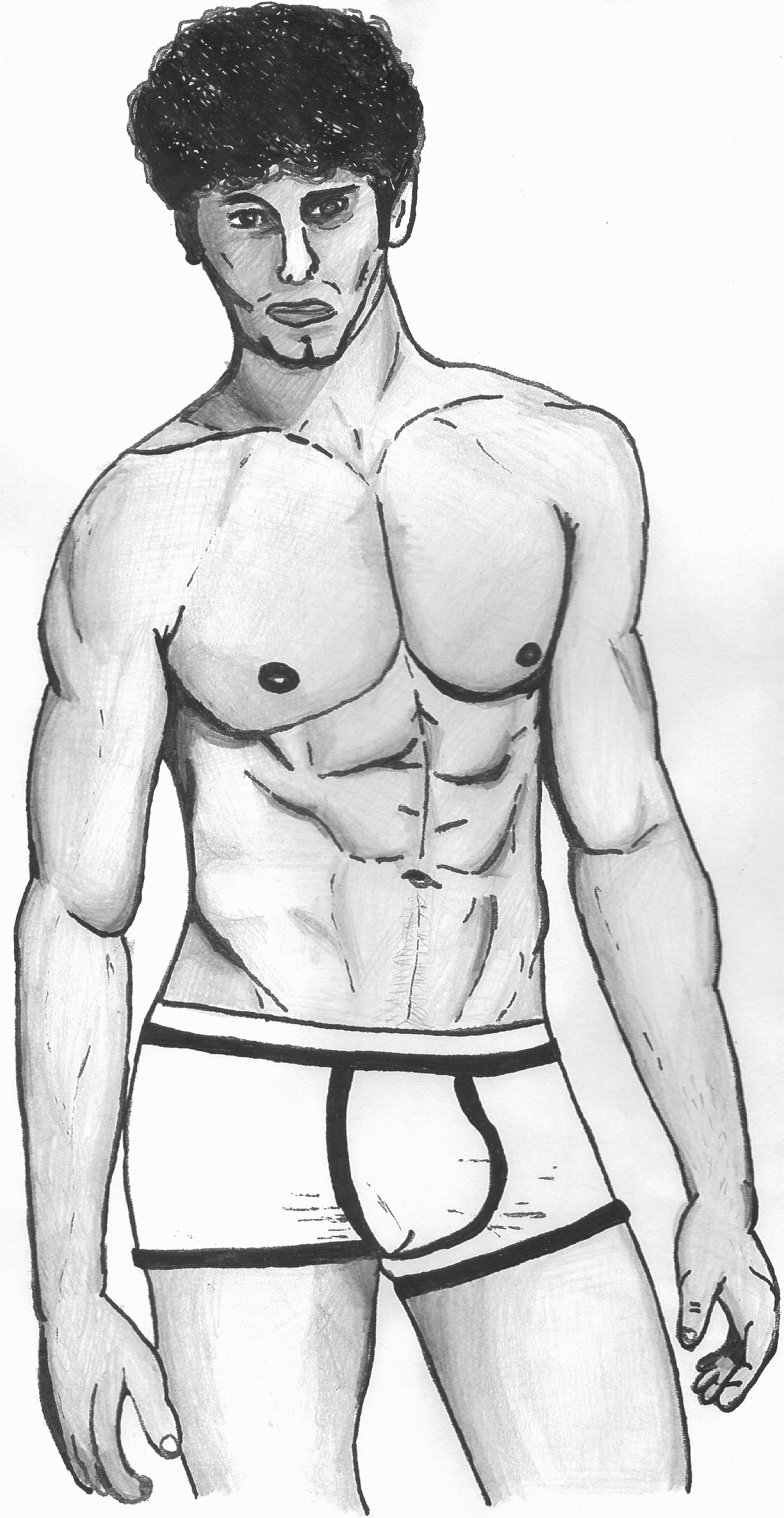 Hand drawing of a men wearing a pair of boxer briefs.